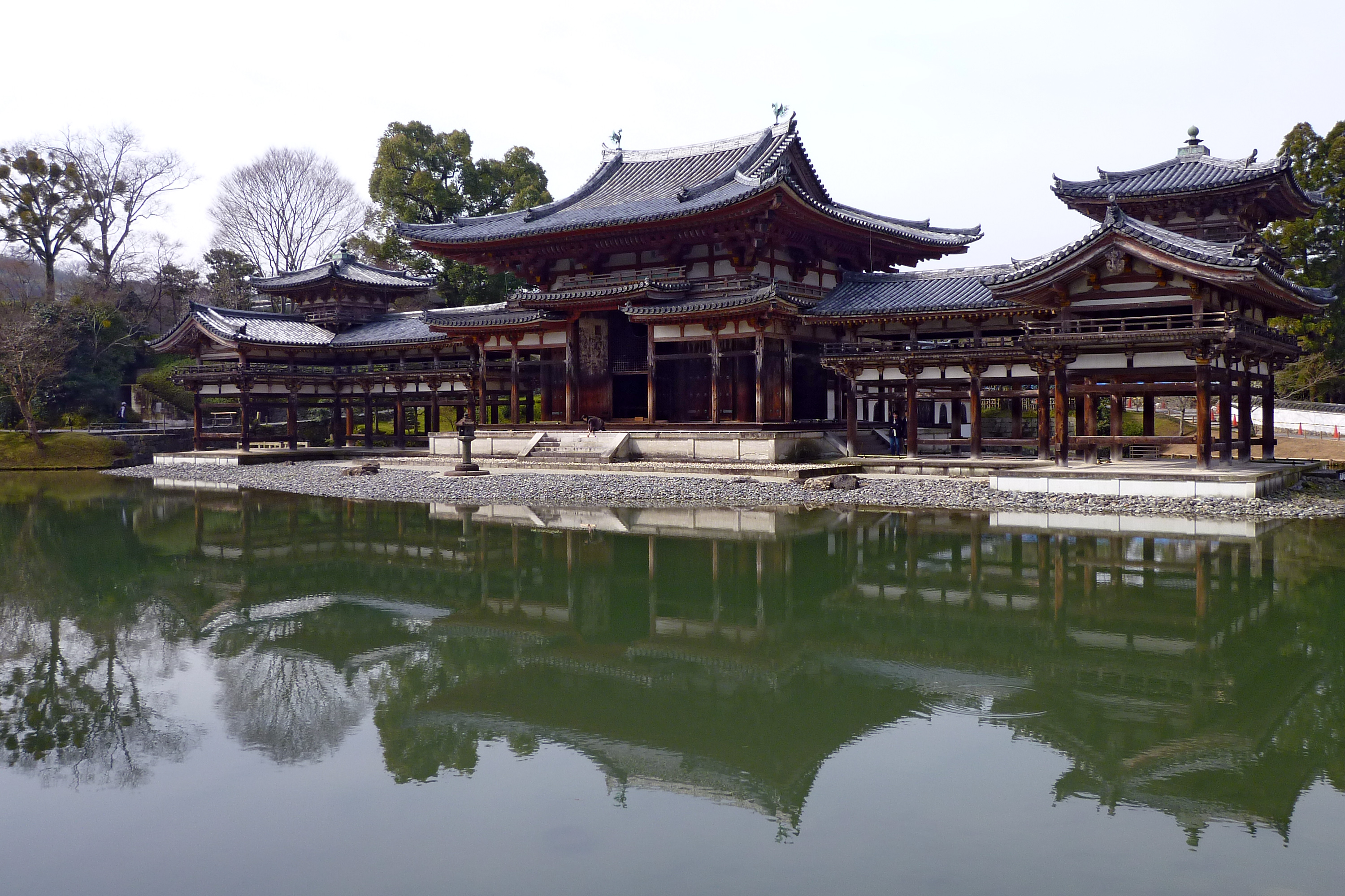 Byōdō-in Phoenix Hall, Uji, Kyoto prefecture, Japan, 1059.